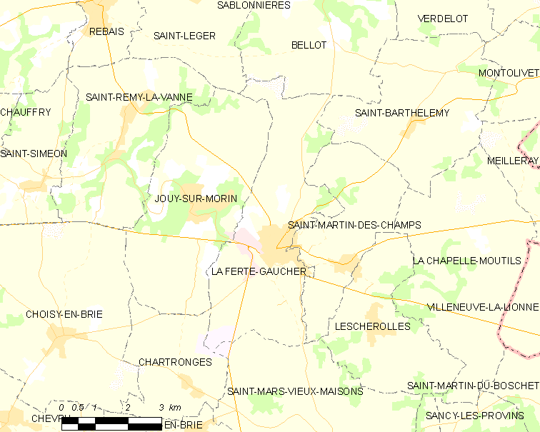 Map of French municipality La Ferté-Gaucher